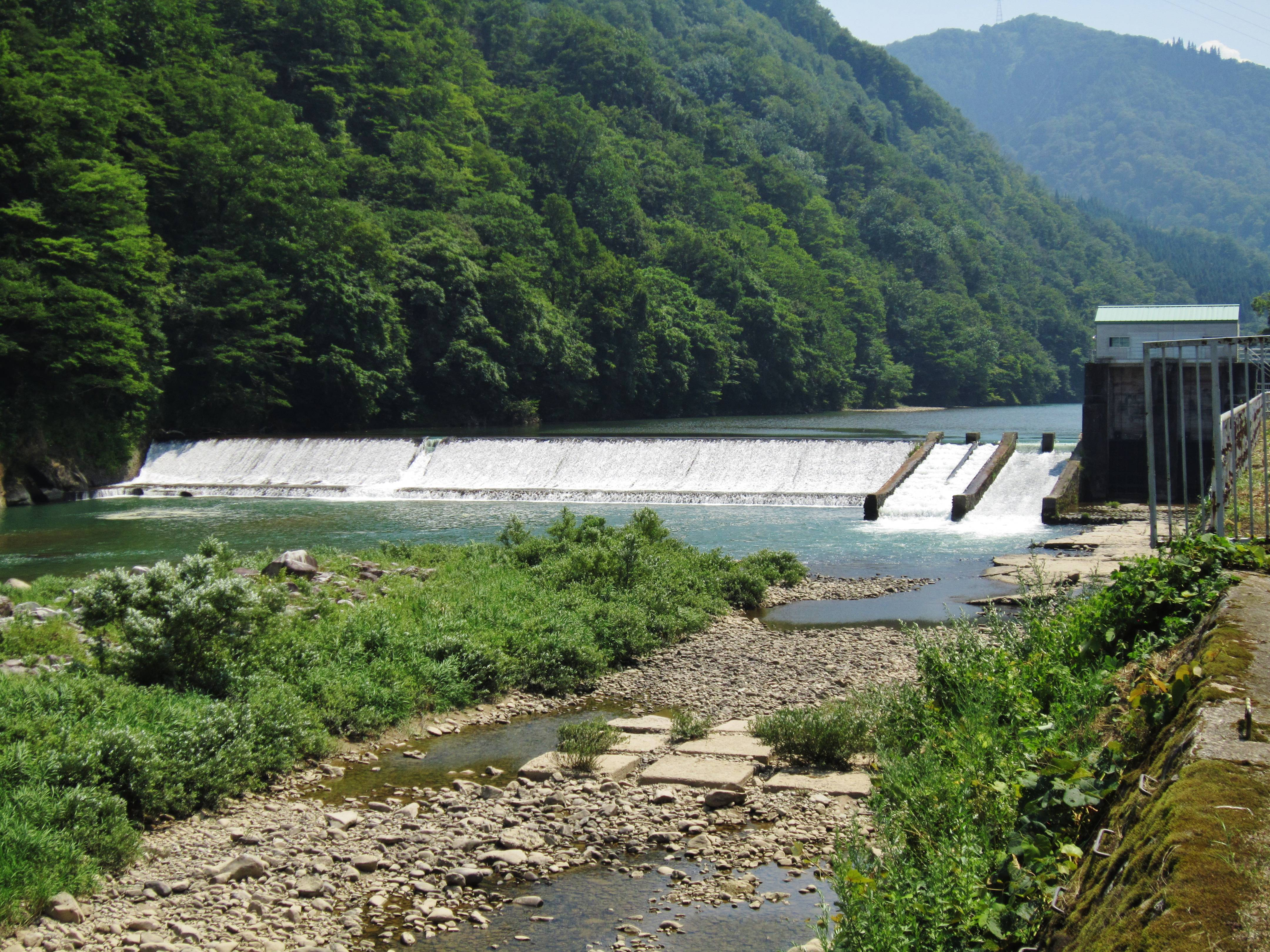 Kanidera hydroelectric power station grit chamber.